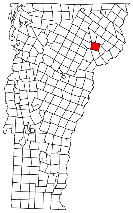 Description: Map of Vermont towns with Lyndon highlighted Source: Map created by Jared C. Benedict on 26 March 2004. Copyright: © Jared C. Benedict.